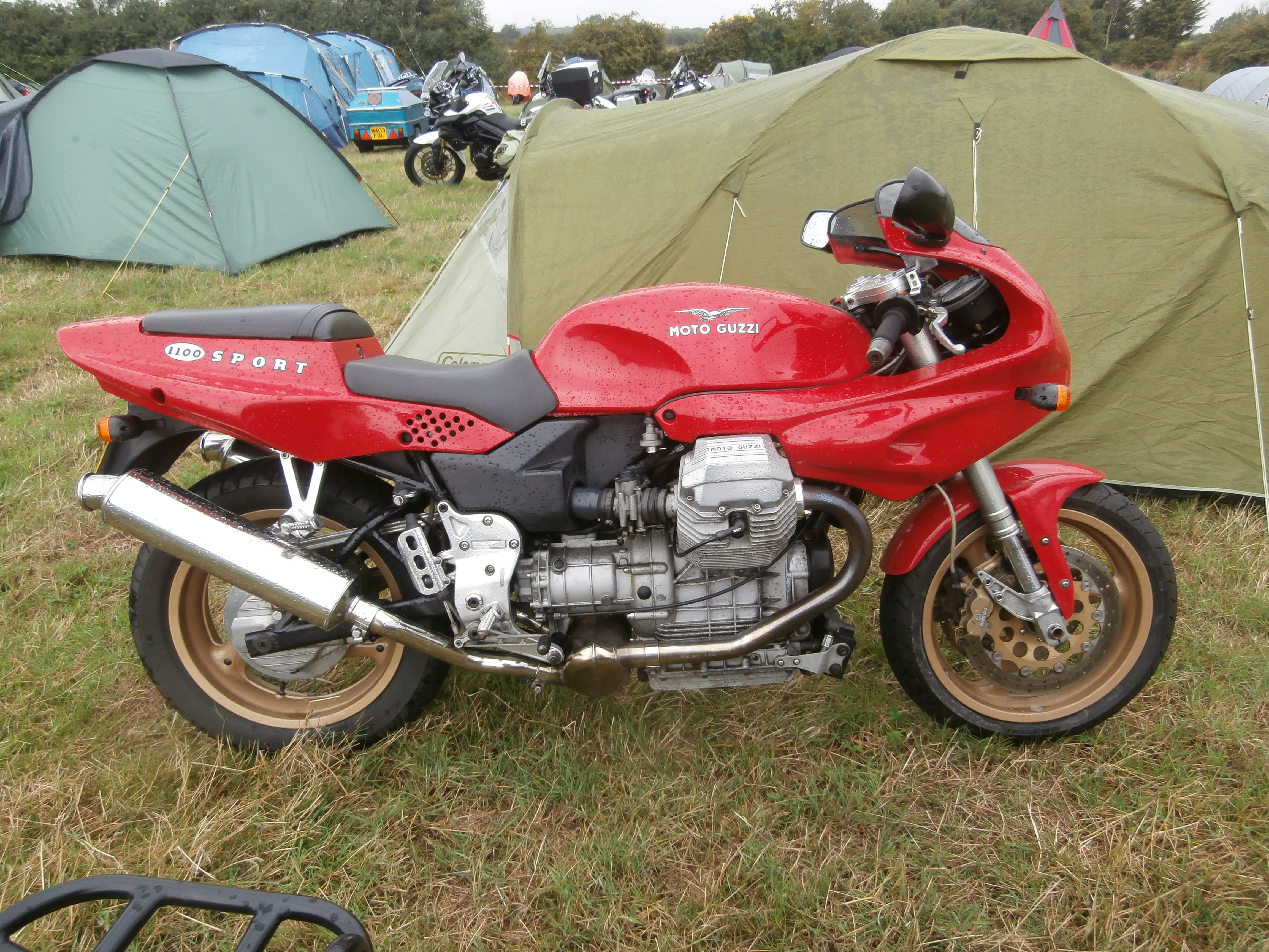 Moto Guzzi Sport 1100